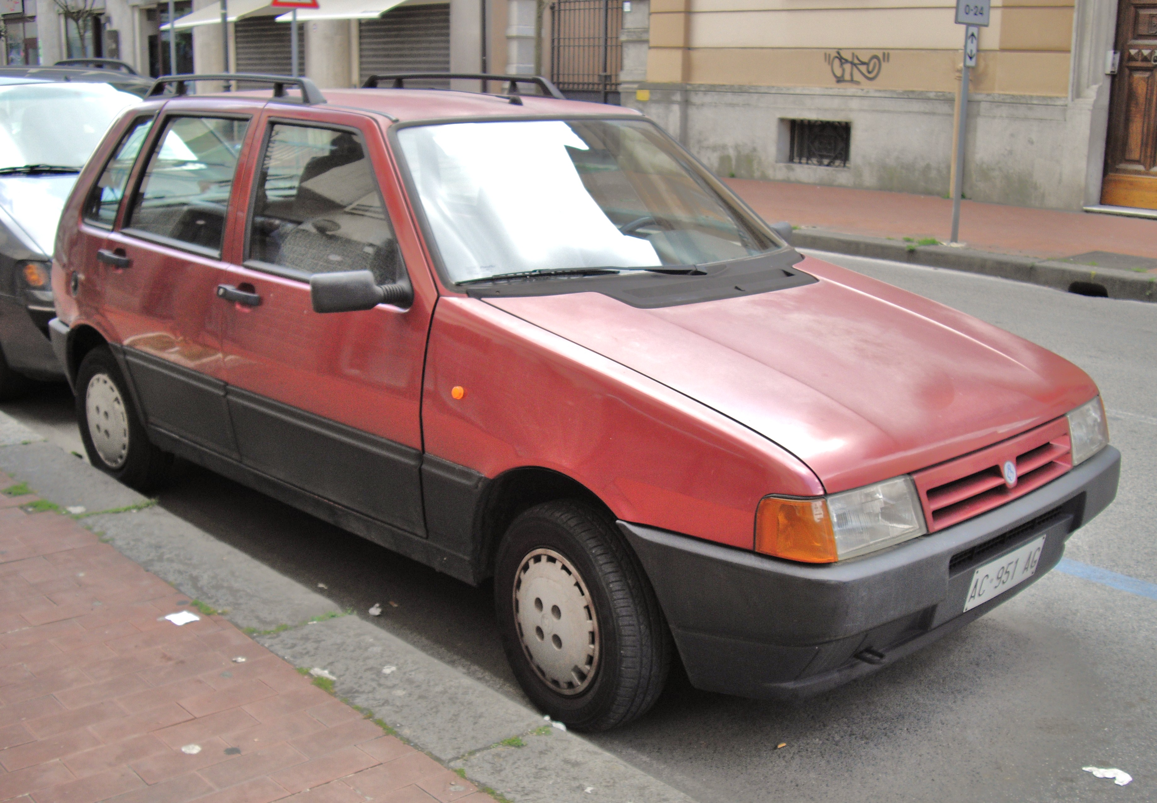 Innocenti Mille Clip